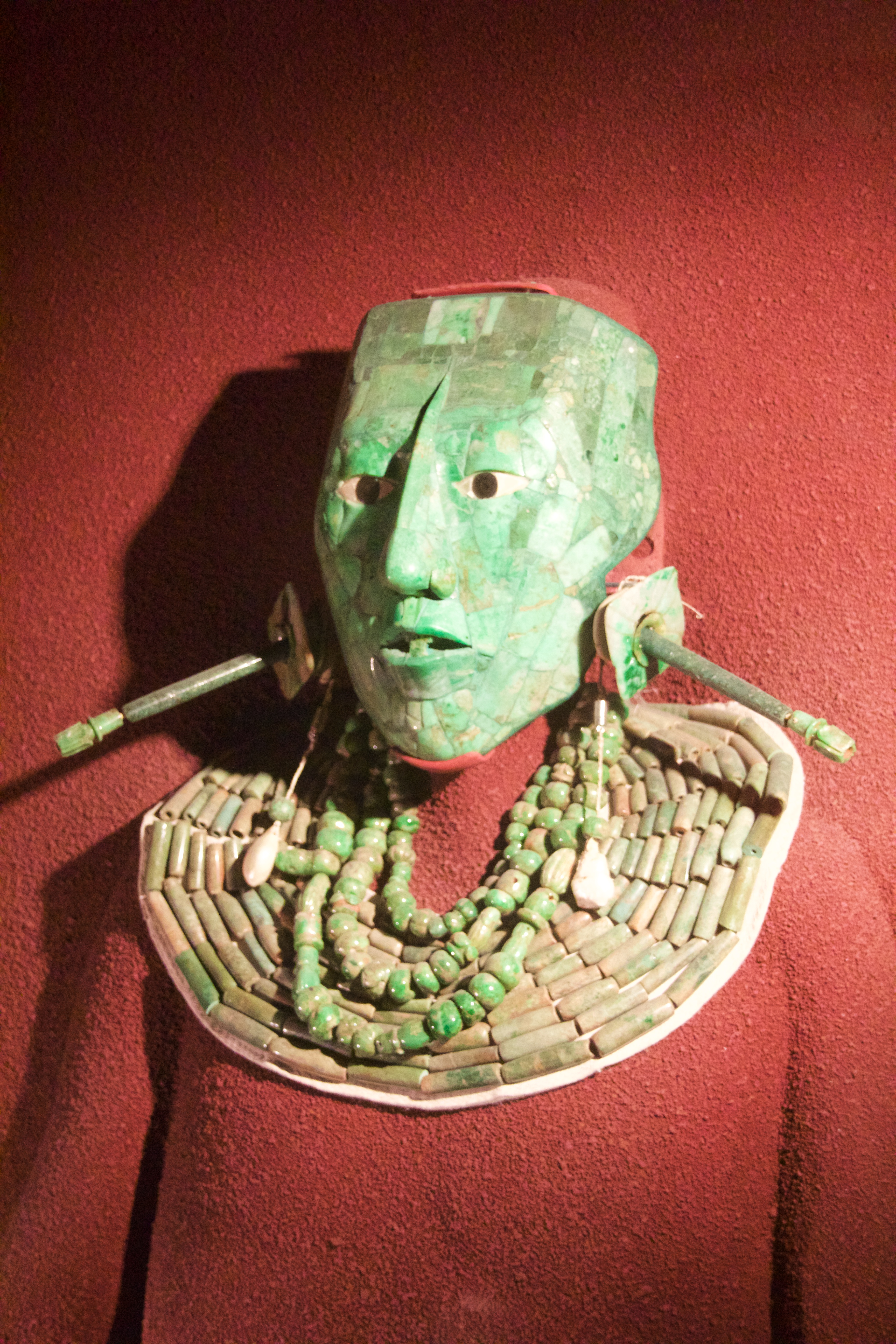 Wiki takes Antropología, at the Museo Nacional de Antropología, Mexico City, Mexico.